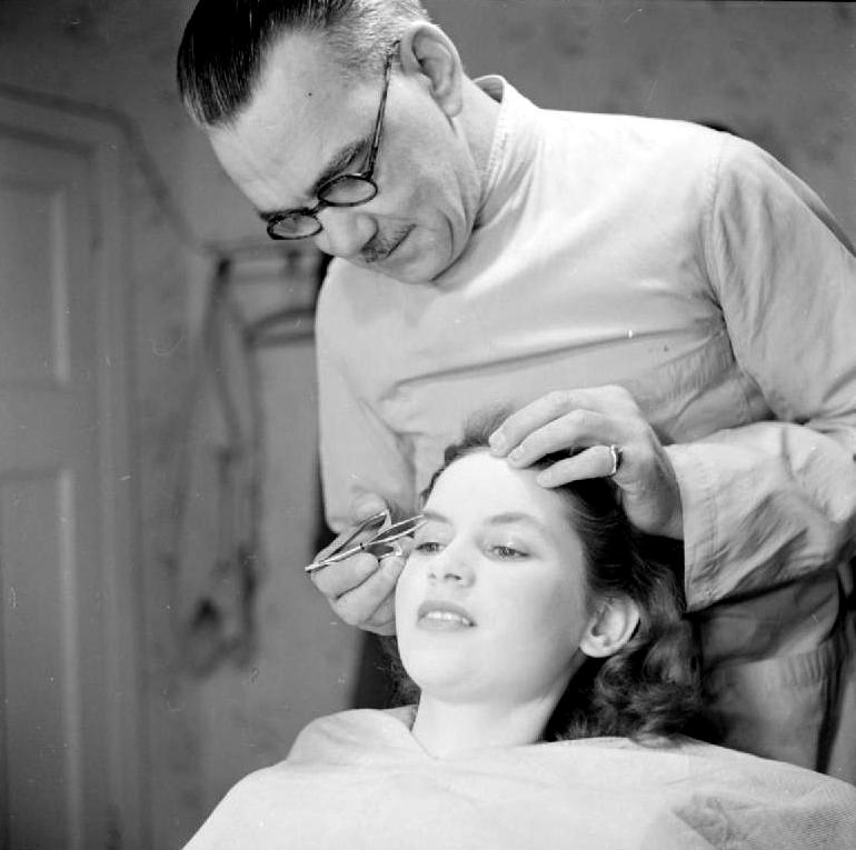 Birth of a Star- Everyday Life For Actress Muriel Pavlow, England, UK, 1945 Make-up artist Bob Clark plucks the eyebrows of actress Muriel Pavlow, as she sits in the make-up room chair at Welwyn Garden Studios in Hertfordshire. According to the original caption, Mr Clark "says that from a make-up point of view she often looks too young, has to add a few lines for age".